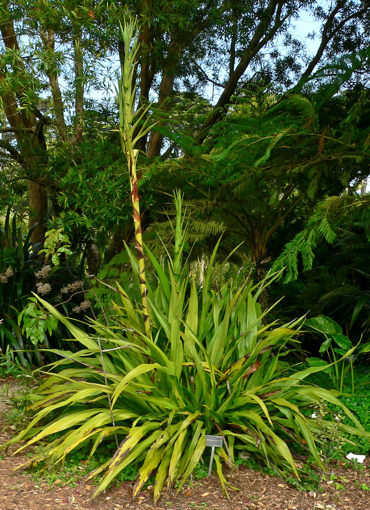 Photo of Doryanthes excelsa at the San Francisco Botanical Garden